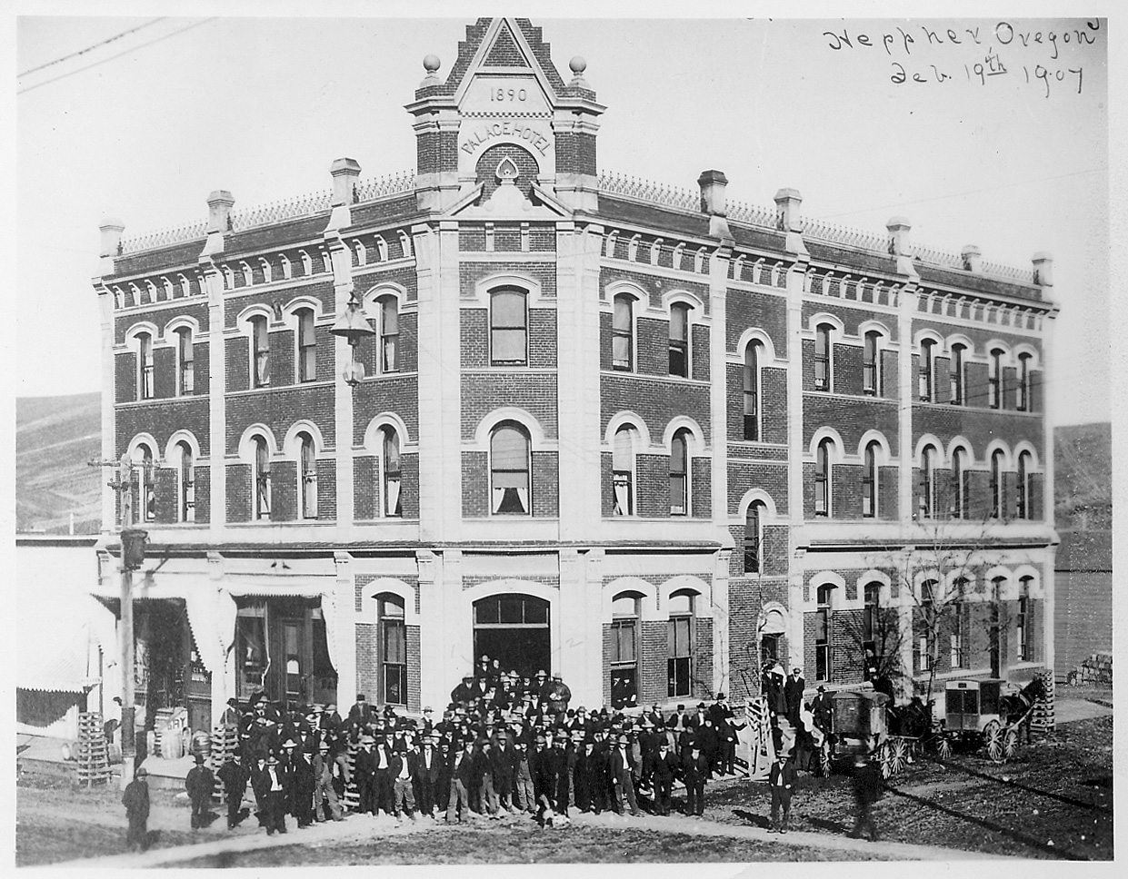 Old Palace Hotel when local stockmen had gathered for an organization meeting on February 19, 1907. Thomas E. Chidsey and D. B. Sheller, Forest Service officials, are in the photo.